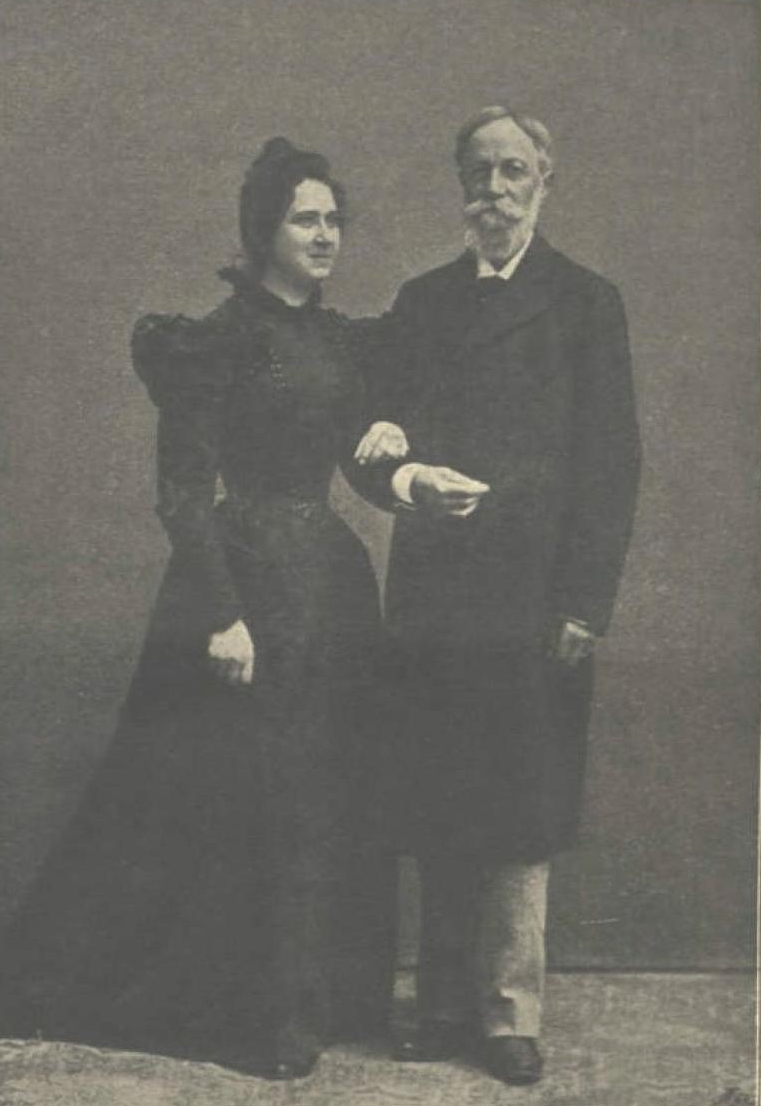 Mór Jókai and Bella Nagy in Italy